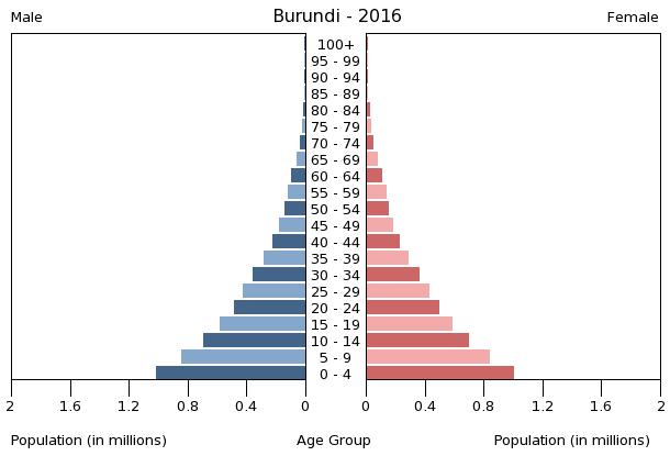 The population pyramid of Burundi illustrates the age and sex structure of population and may provide insights about political and social stability, as well as economic development. The population is distributed along the horizontal axis, with males shown on the left and females on the right. The male and female populations are broken down into 5-year age groups represented as horizontal bars along the vertical axis, with the youngest age groups at the bottom and the oldest at the top. The shape of the population pyramid gradually evolves over time based on fertility, mortality, and international migration trends.